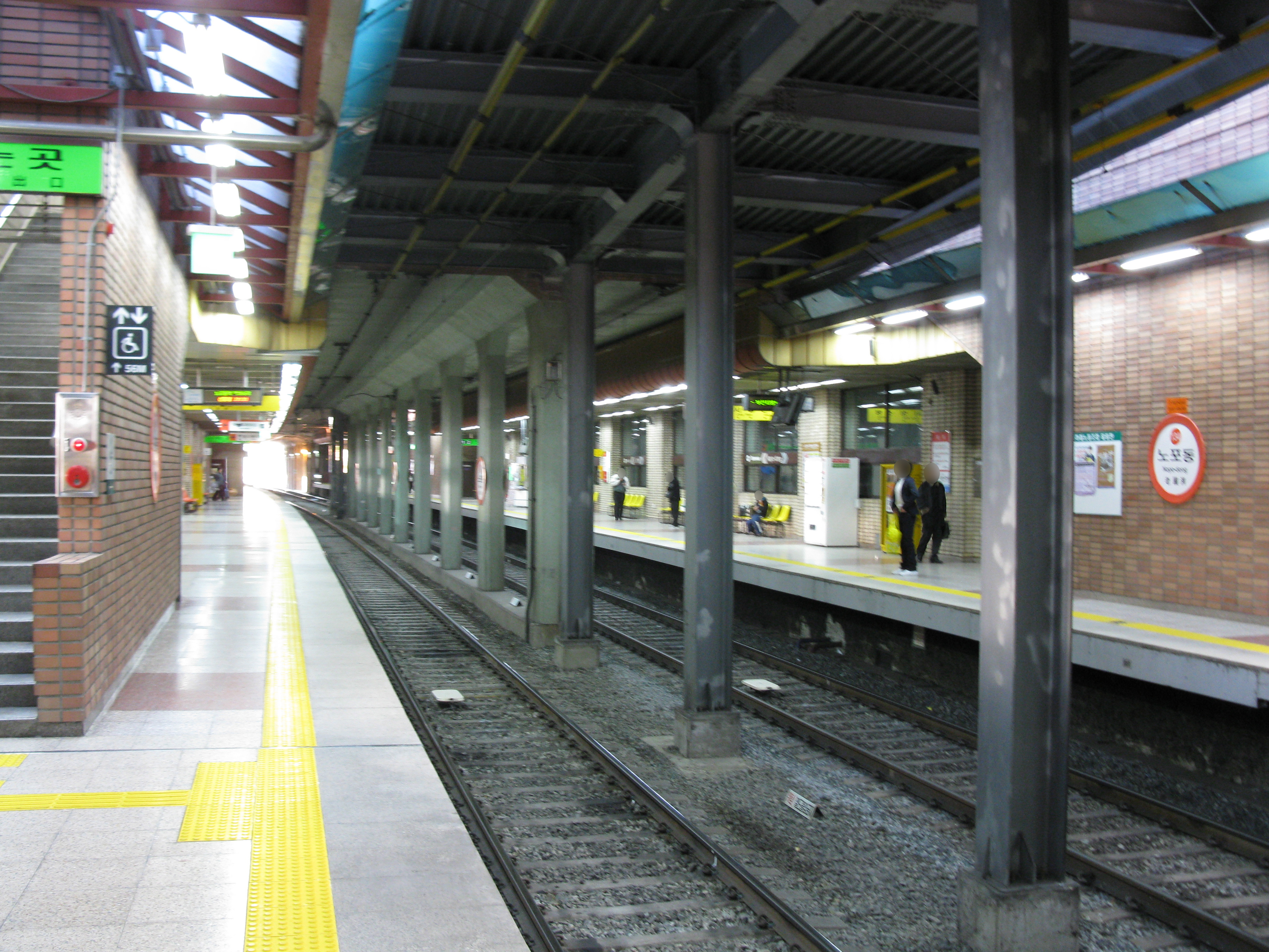 The platform of Nopo-dong Station on the Busan Subway Line 1 in Geumjeong-gu, Busan, Republic of Korea(South Korea)